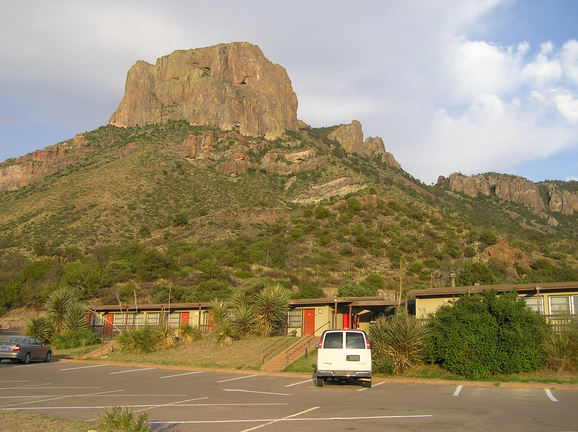 Location Big Bend National Park Description Sometimes considered "three parks in one," Big Bend includes mountain, desert, and river environments. An hour’s drive can take you from the banks of the Rio Grande to a mountain basin nearly a mile high. Here, you can explore one of the last remaining wild corners of the United States, and experience unmatched sights, sounds, and solitude.